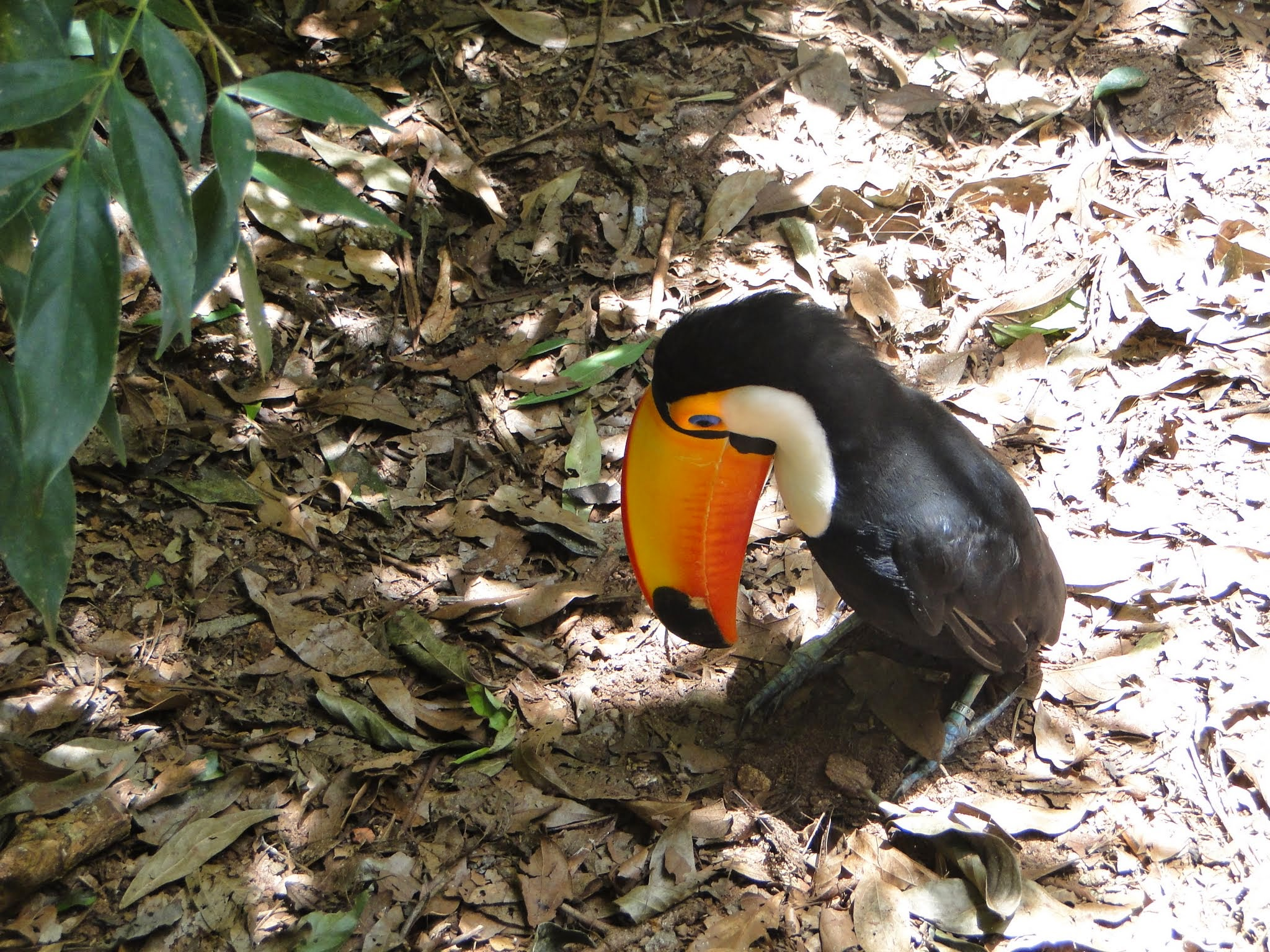 Toucan (Iguazu national park)